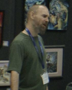 Description: Doug Kovacs at Gen Con in 2011. Date: August 7, 2011 (according to Flickr) Source: Cropped from Flickr